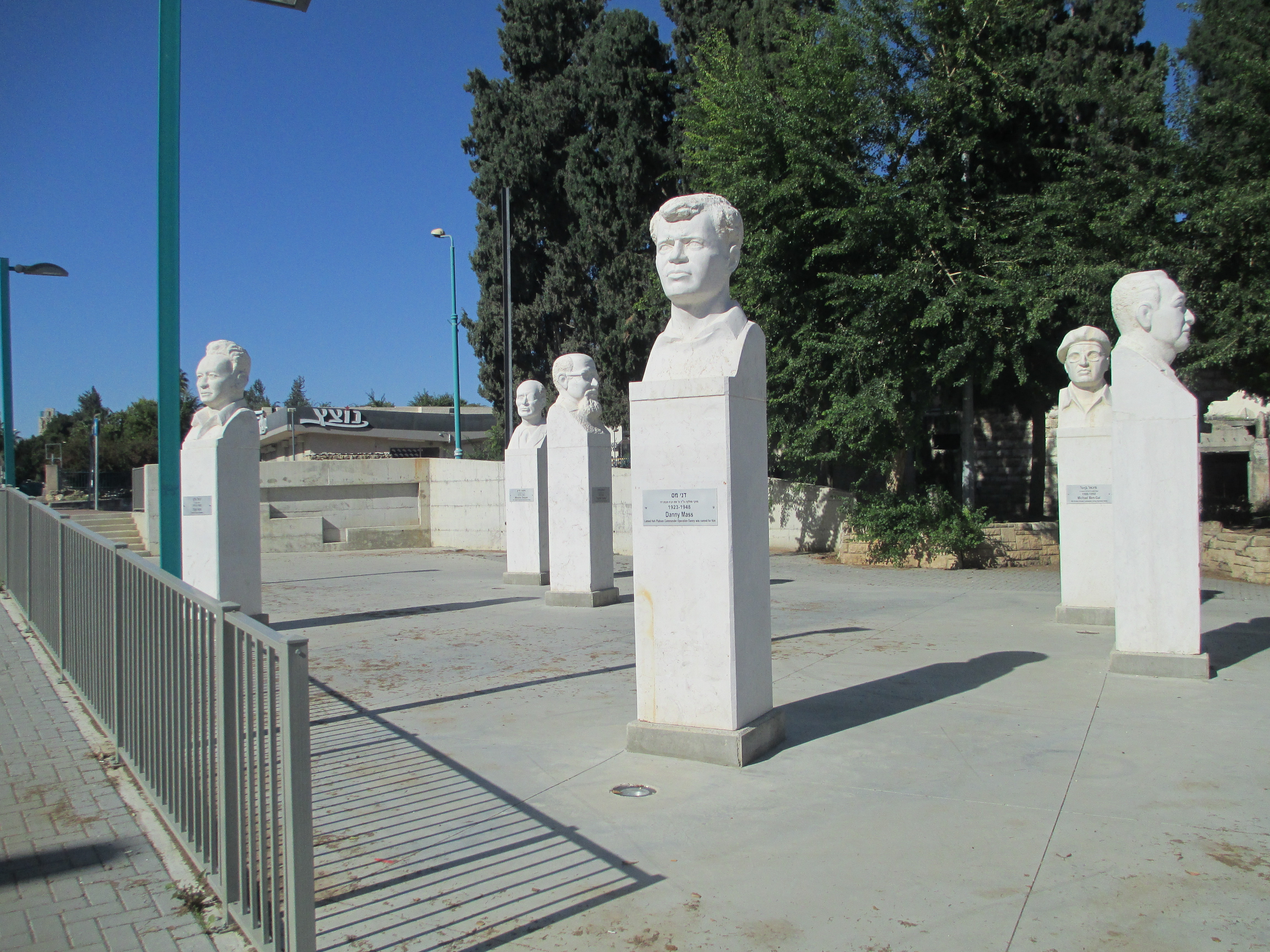 Operation Danni square in Ramla